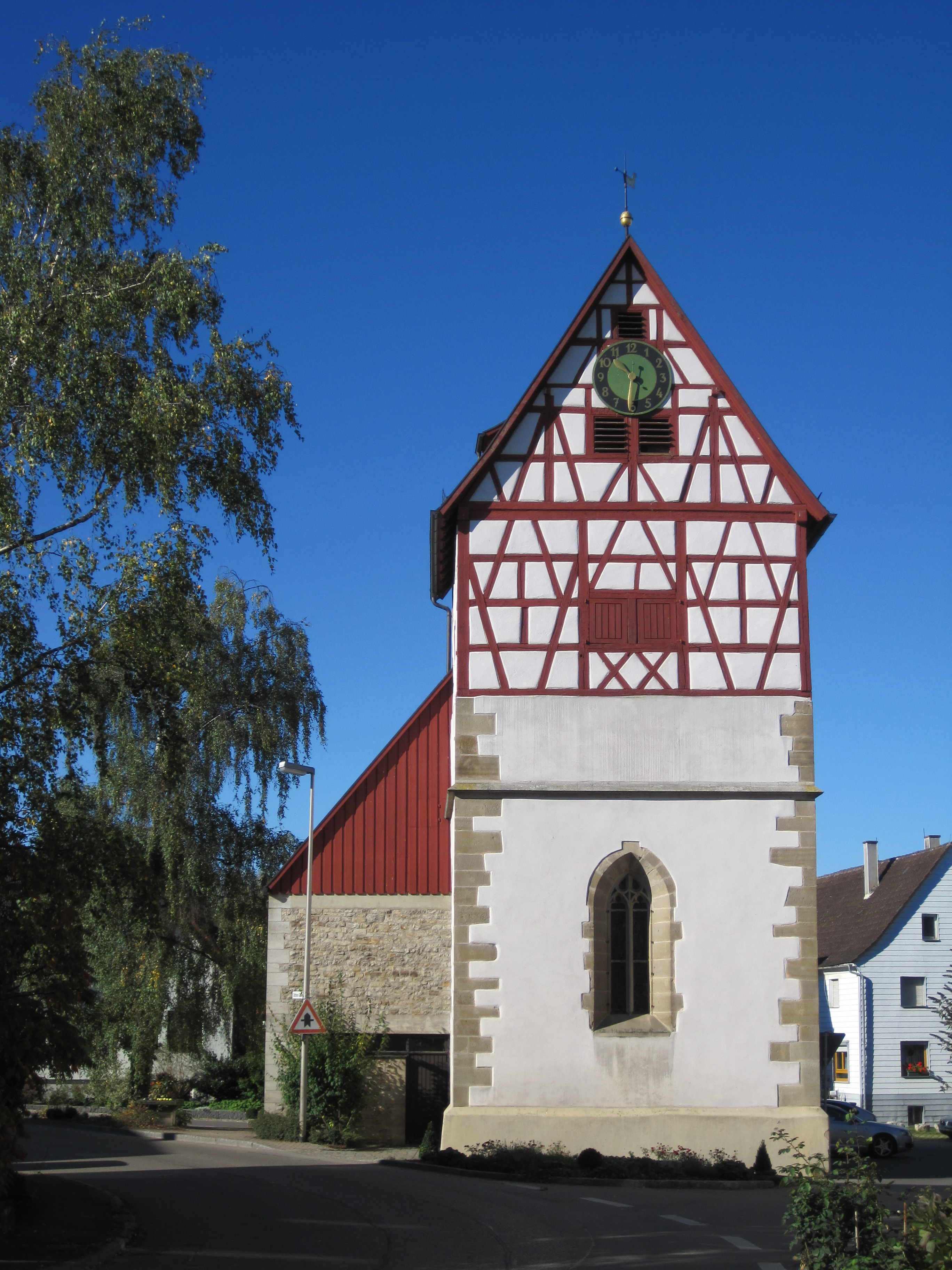 Church in Ingersheim, township of Crailsheim in Germany